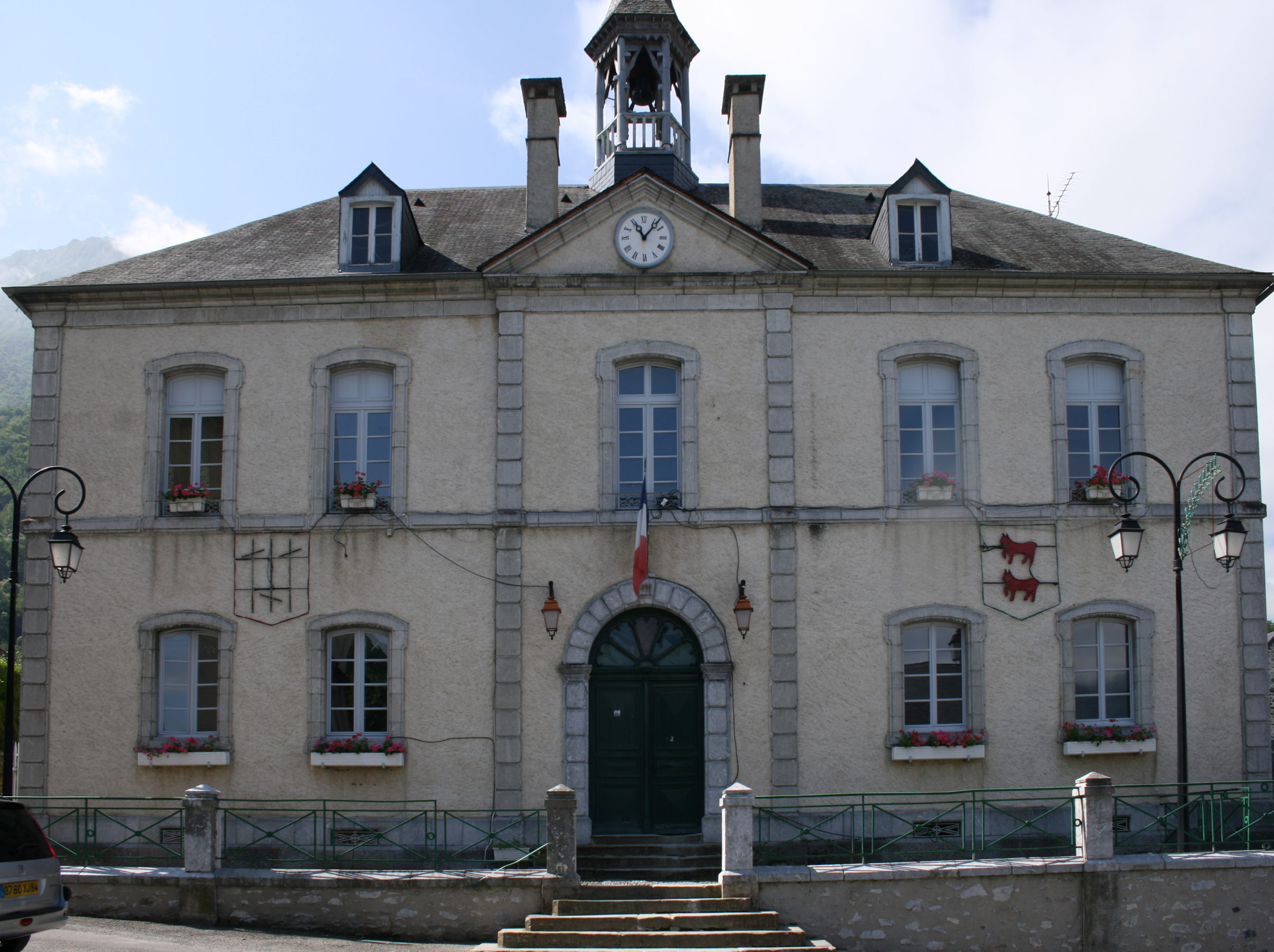 Mayor's office at Accous, Aspe-valley, France.